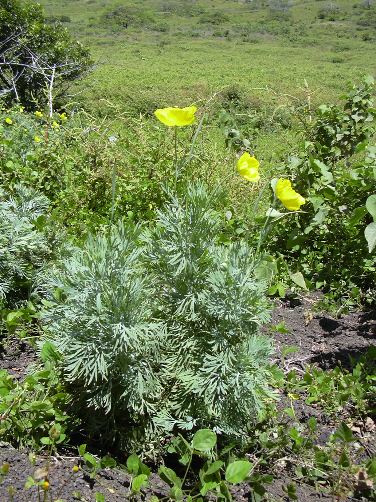 Hunnemannia fumariifolia (flowering habit). Location: Maui, Kanaio